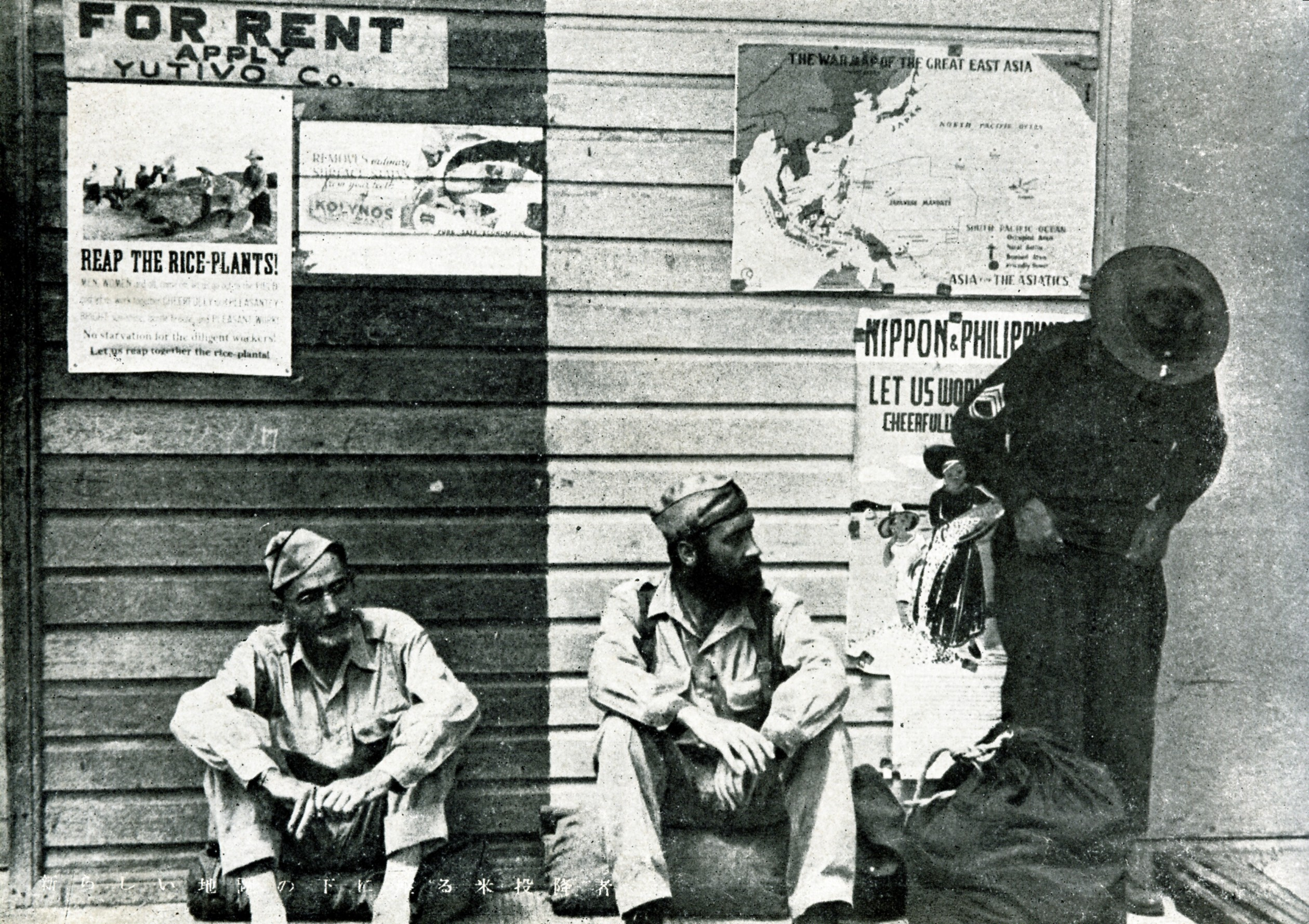 US soldiers surrendered lethargically by Imperial Japanese army